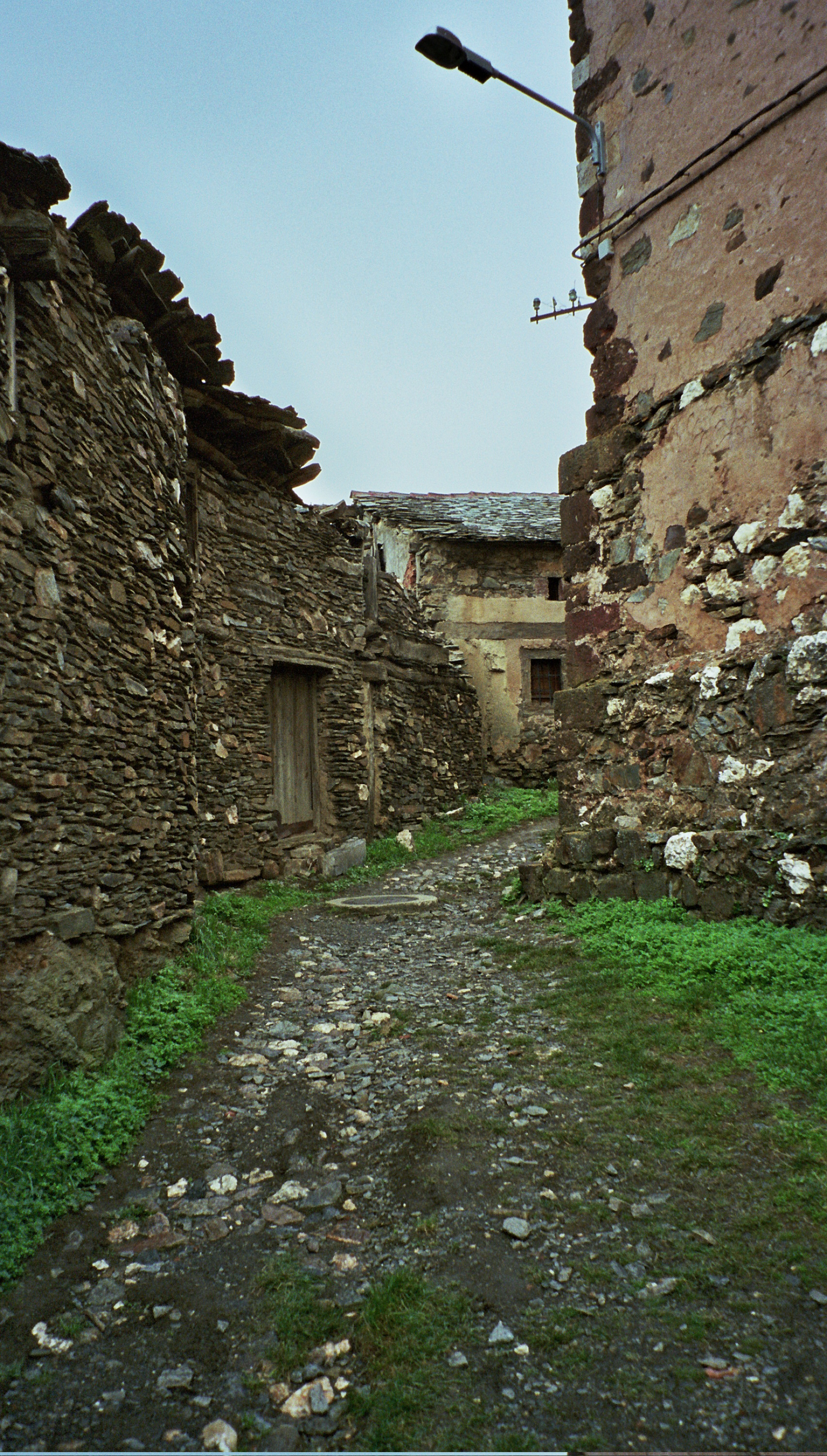 Street of El Muyo, Segovia (Spain) showing traditional slate buildings.